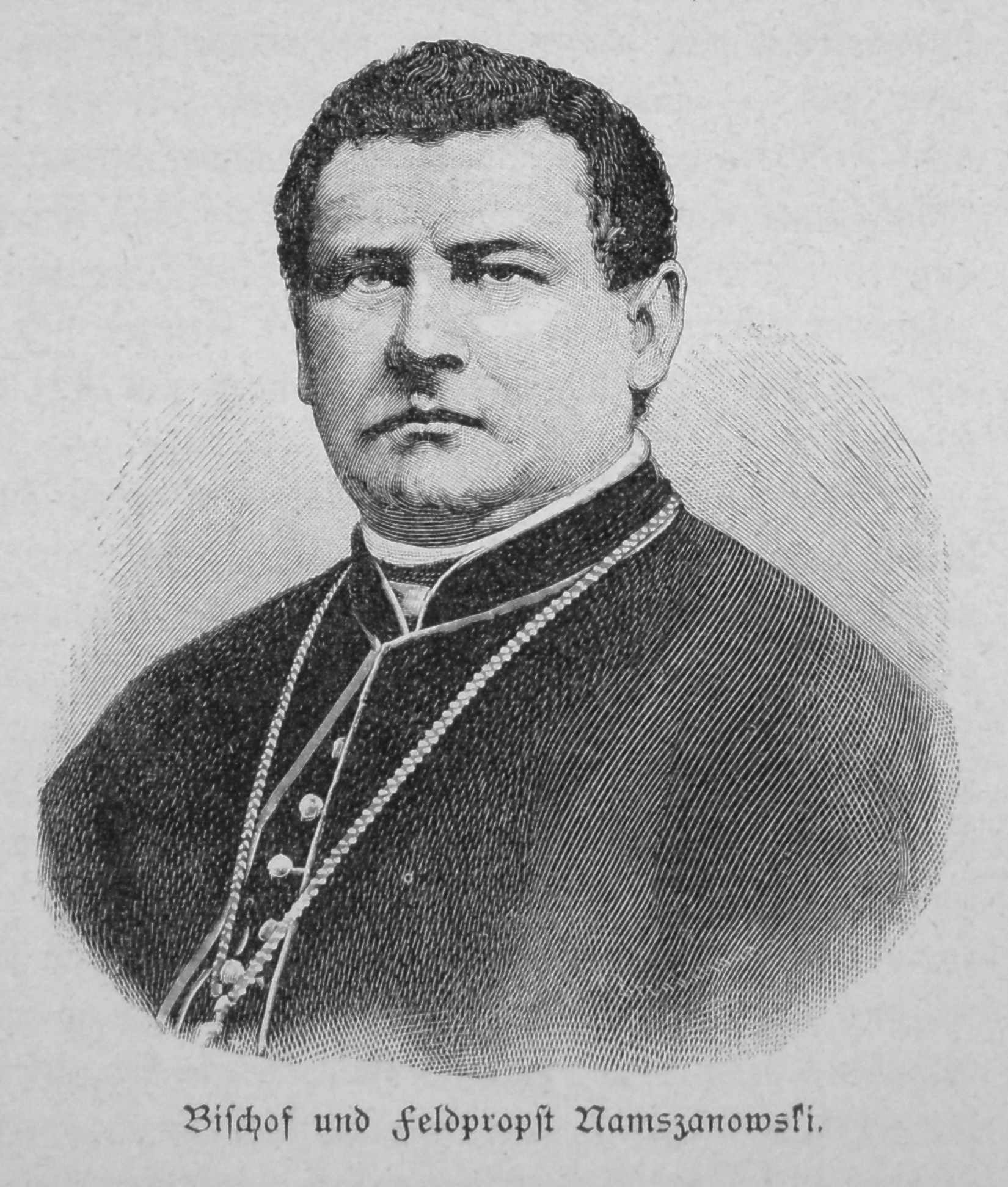 bishop and field provost Namszanowski